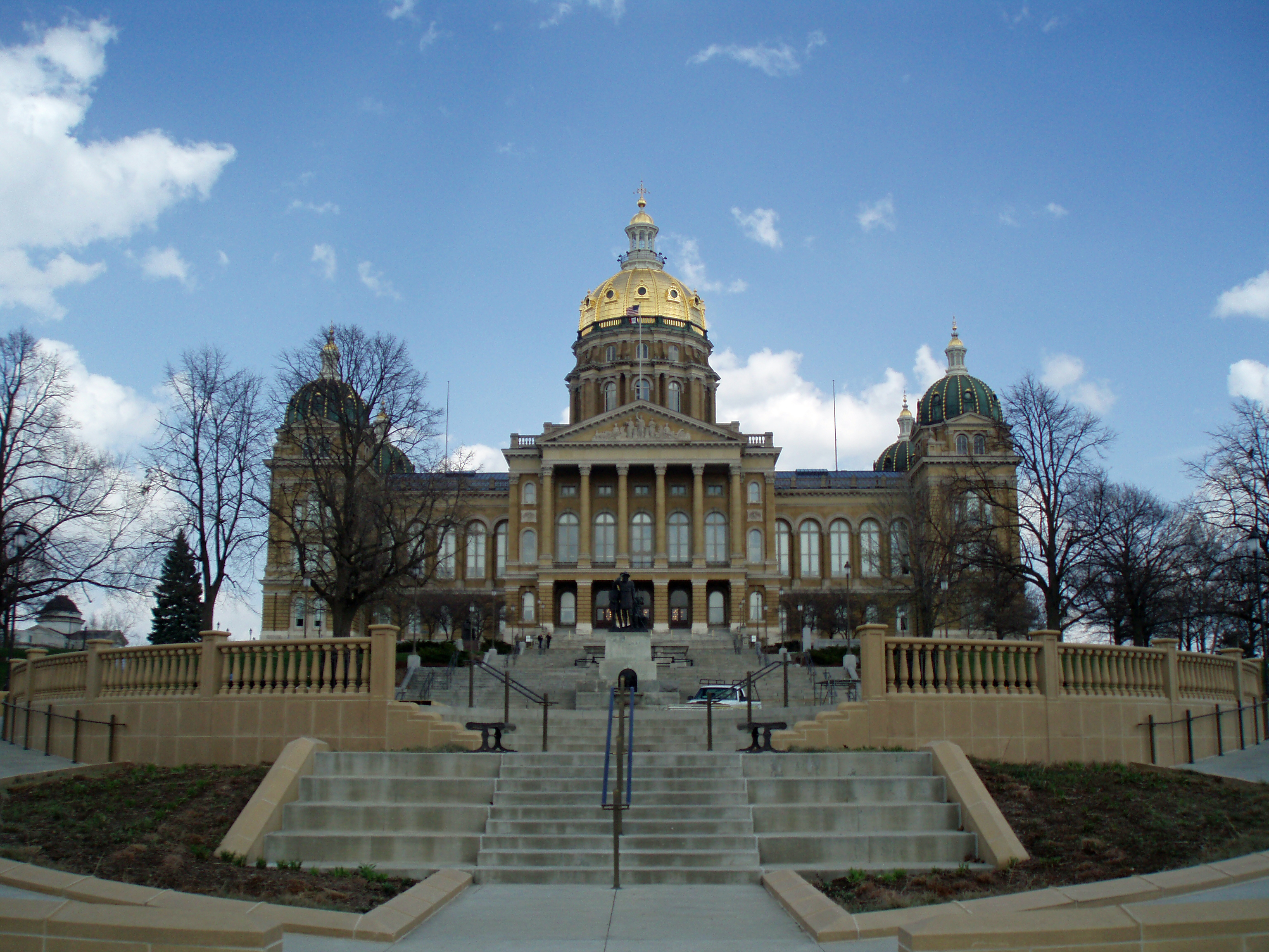 The State Capitol of Iowa, with its Golden Dome